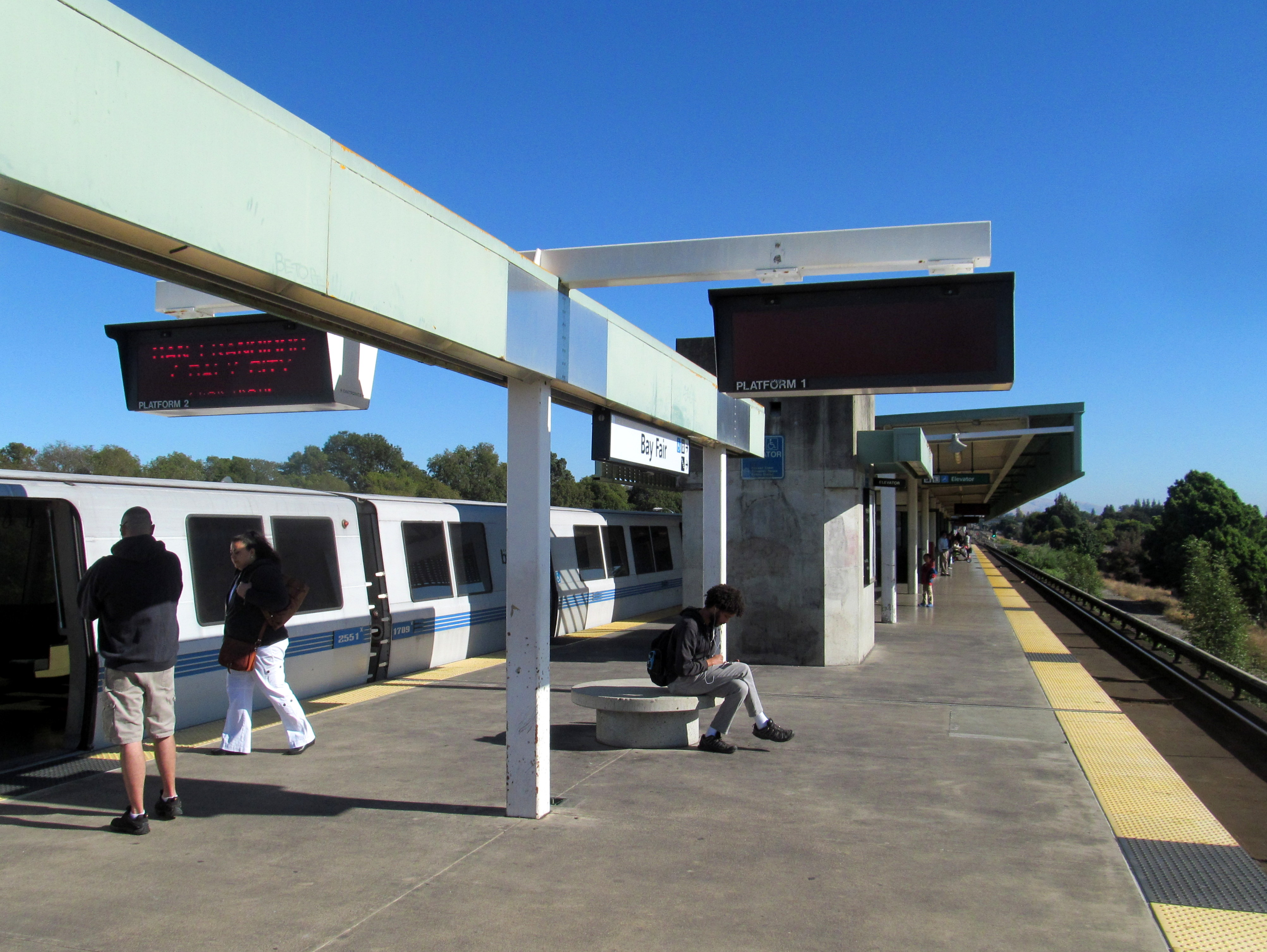 A northbound Dublin-Pleasanton Line train at Bay Fair station in October 2017